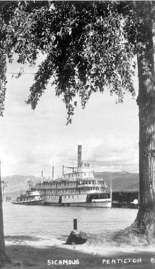 Sternwheeler Sicamous at dock at Penticton, BC, with a tug alongside, circa 1920.